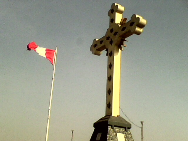 Cross at the top of Cerro San Cristobal (Perú)